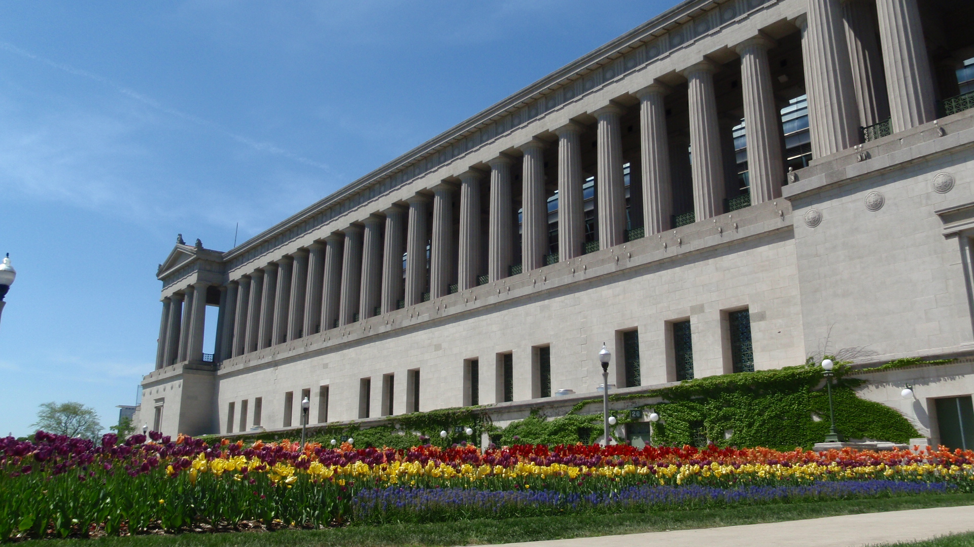 Soldier Field